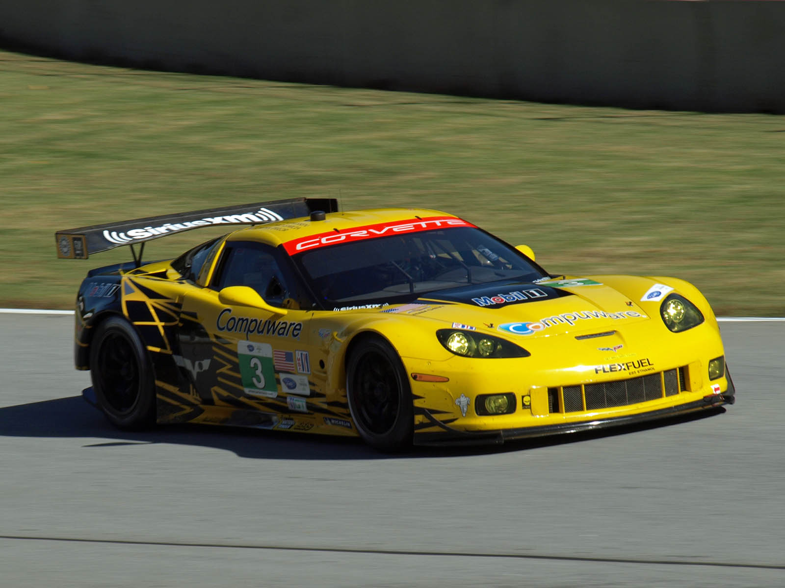 Antonio García in the Corvette Racing Chevrolet Corvette C6.R during qualifying for the 2012 Petit Le Mans